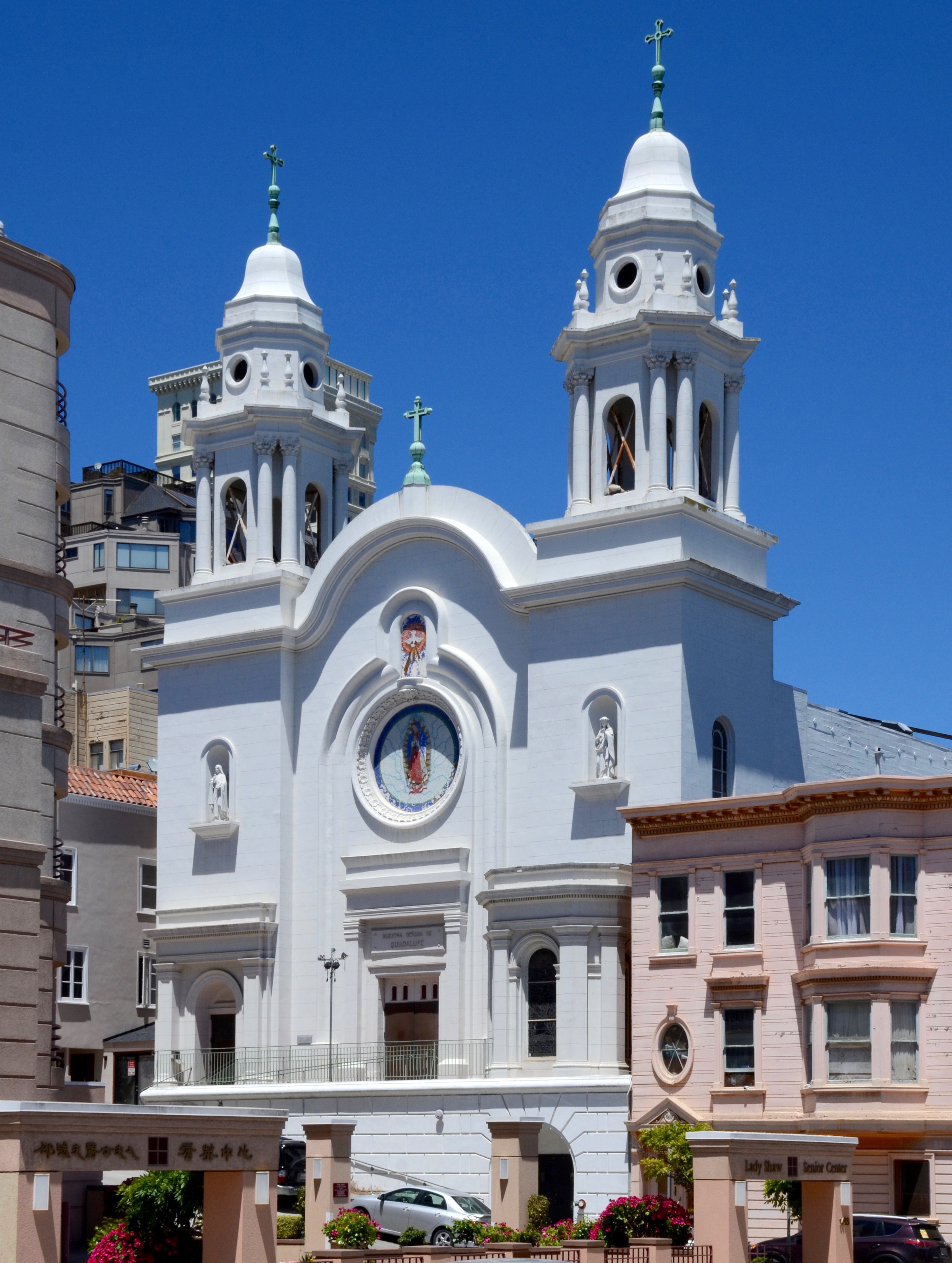 Our Lady of Guadalupe Church, at 906 Broadway in San Francisco, California, is a San Francisco Designated Landmark. Built in 1912, the structure was last used as a church in 1991, then modified for use by St. Mary's School. It was sold in 2013, renovated but not returned to use, and sold again in 2016.